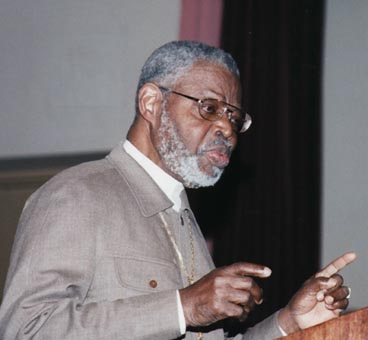 Dr. Ben Lecturing in Brooklyn circa 1990s